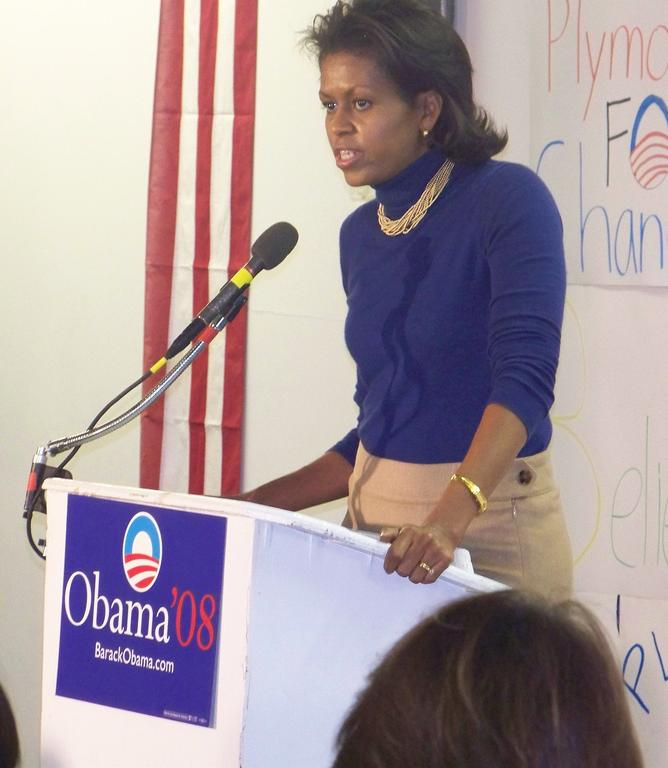 Michelle Obama speaking at a campaign event in Plymouth, NH